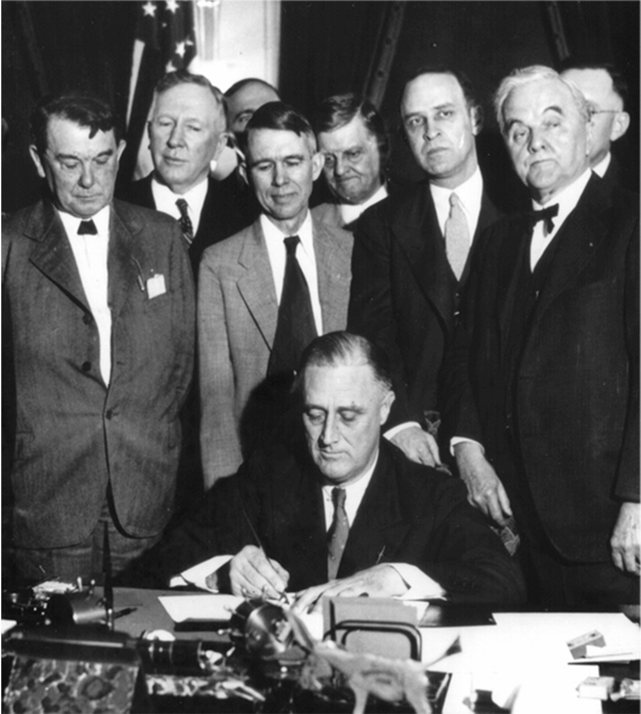 United States President Franklin D. Roosevelt signs the TVA Act, which established the Tennessee Valley Authority. Senator George Norris is on the far right.